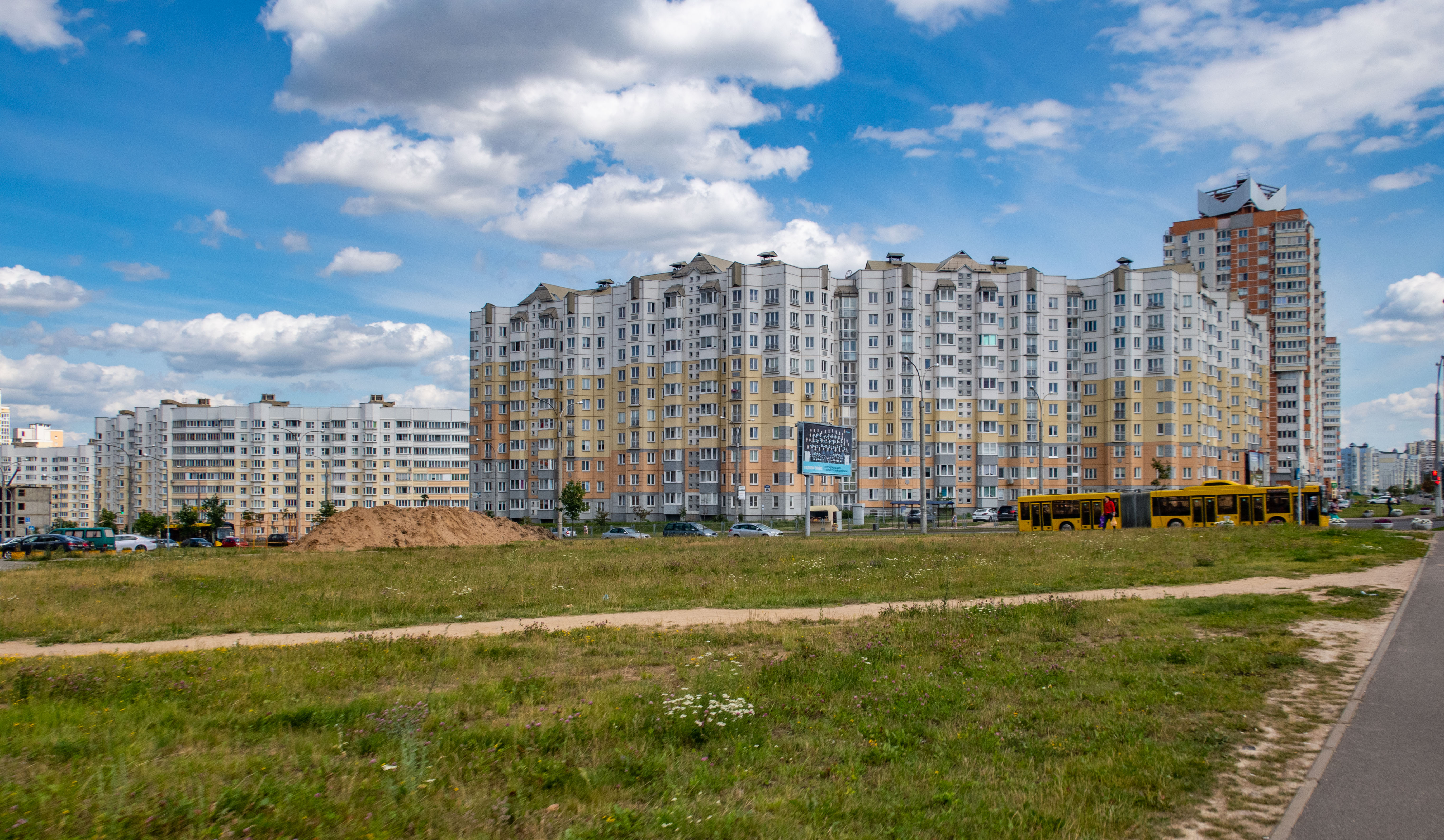 Kamiennaja Horka-2. Minsk, Belarus